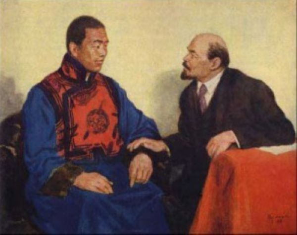 Painting depicting the leader of 1921 Mongolian Revolution Damdin Sükhbaatar meeting Vladimir Lenin in Moscow